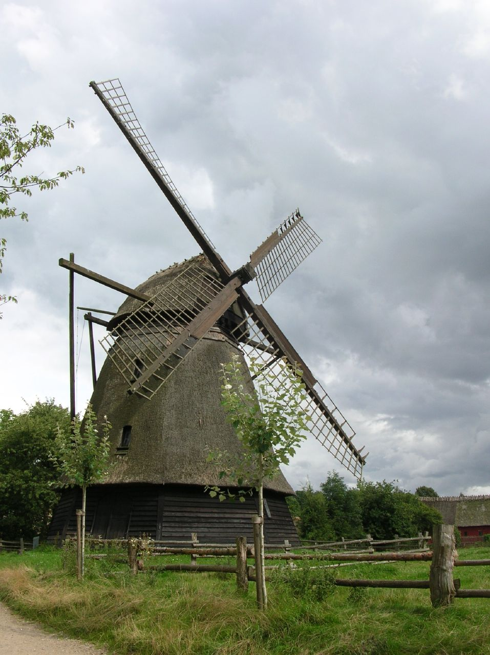 Old windmill in the Odense open air museum Den Fynske Landsby